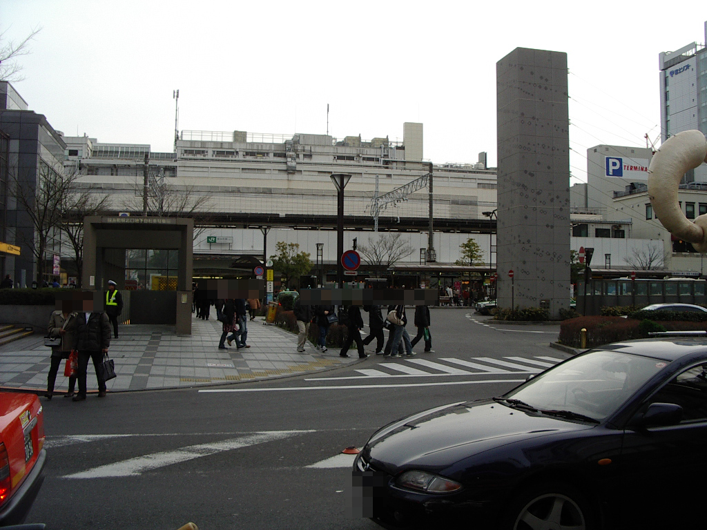 en Kinshicho Station on JR Sobu Line. This is the North Exit.